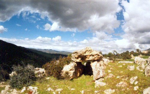 Roknia necropolis in Algeria. Photographer: GASMI.M. "Source: Own photograph by uploader"